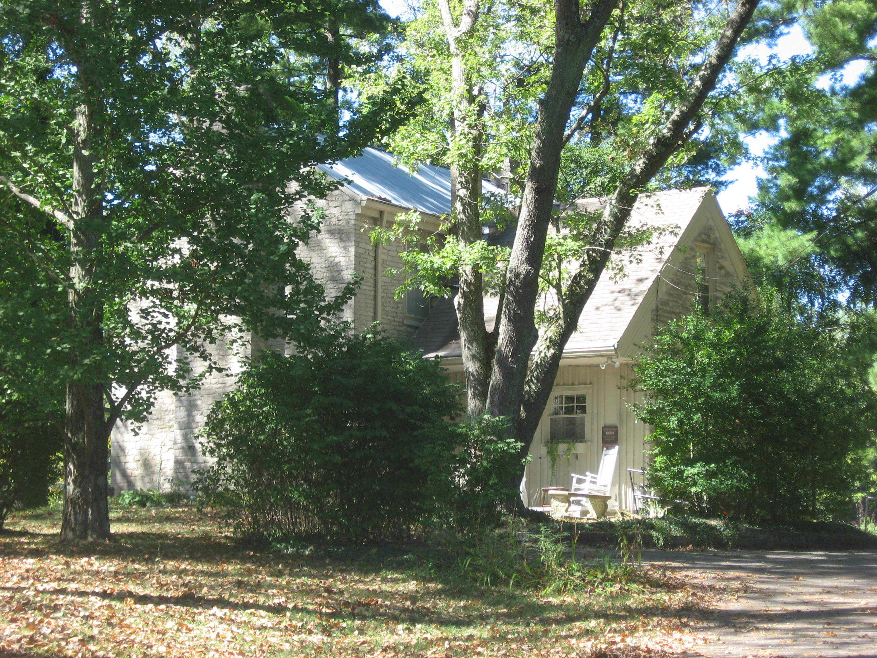 Front of the Daniel Stout House, located along Maple Grove Road northwest of Bloomington in Bloomington Township, Monroe County, Indiana, United States. Built in 1828 and the oldest extant house in Monroe County, it is listed on the National Register of Historic Places, and it is part of a Register-listed historic district, the Maple Grove Road Rural Historic District.